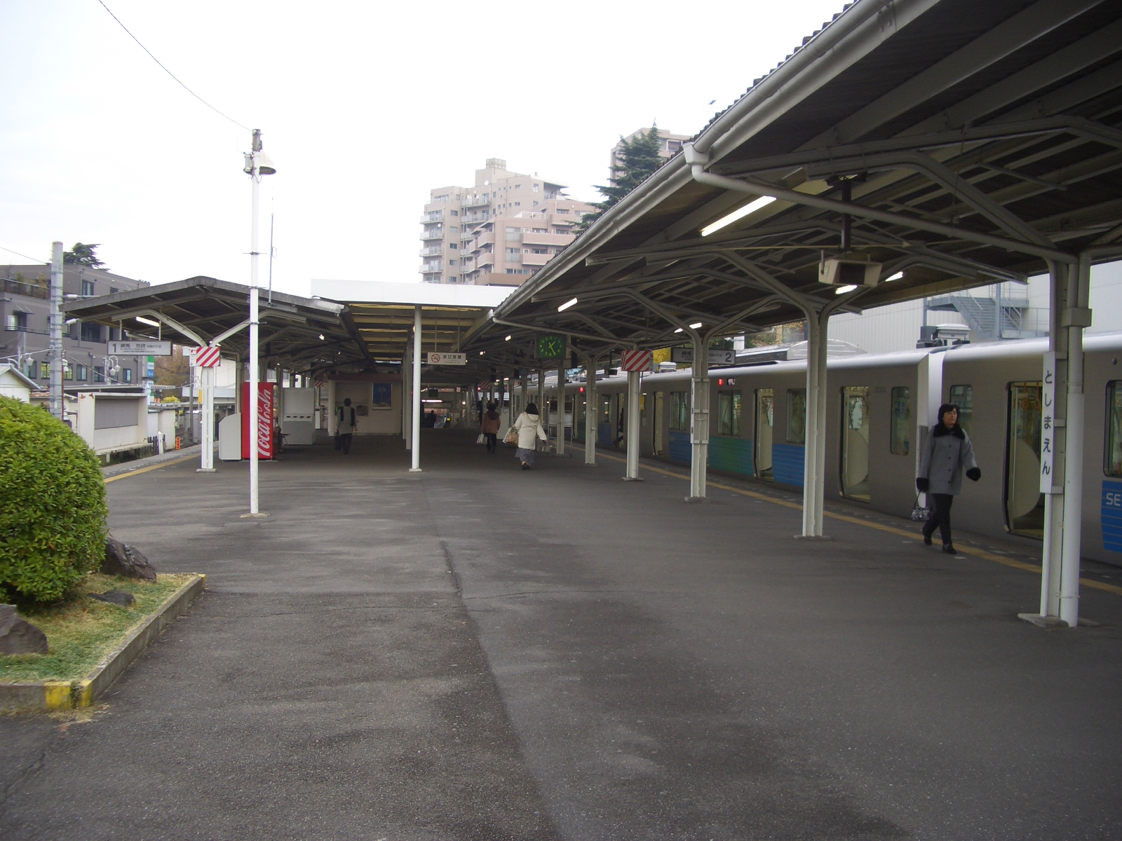 View of the platforms at Toshimaen Station on the Seibu Toshimaen Line, with platform 2 on the right